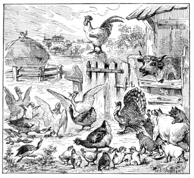 (Removed after reusableart request.)